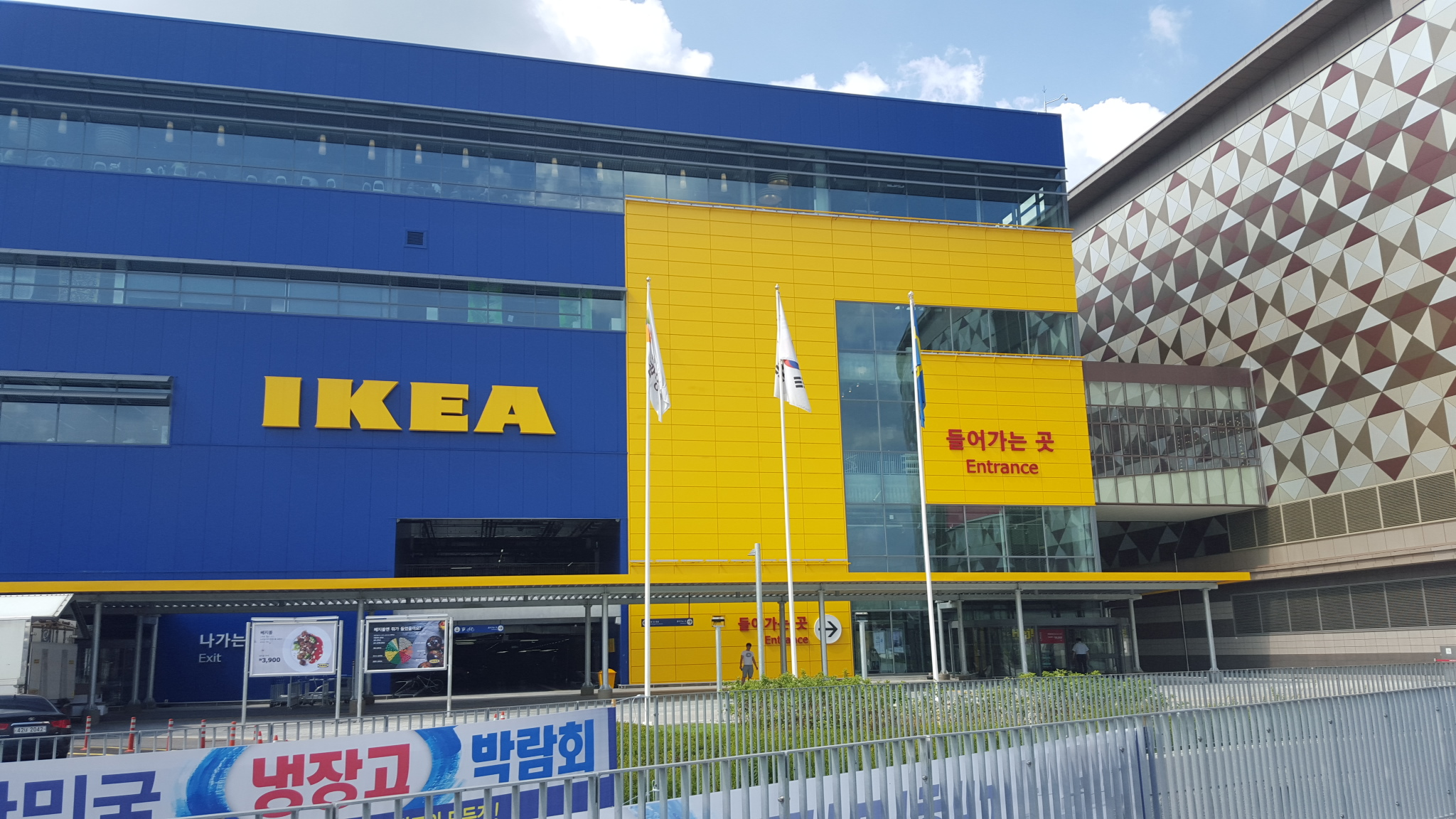 Entrance to the world's largest IKEA near the KTX Gwangmyeong Station in Seoul Capital Area, South Korea